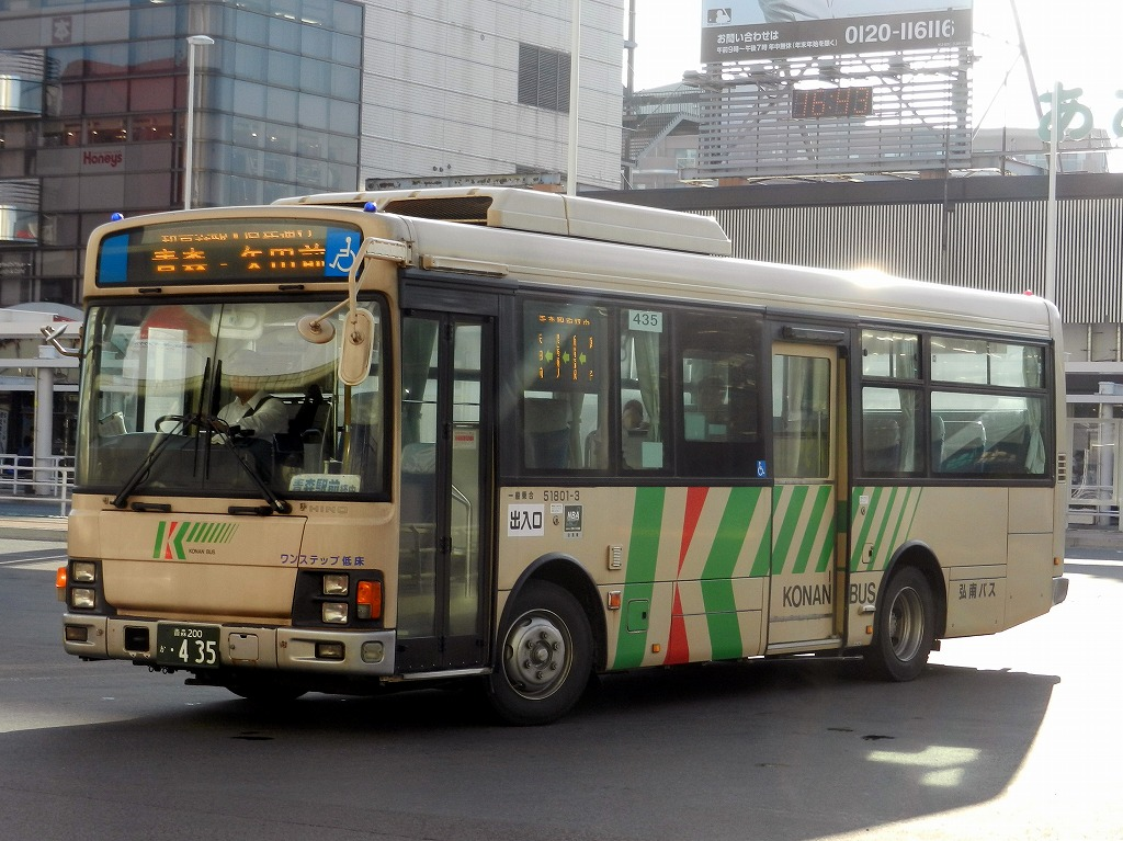 Konan bus (Gosyogawara) Hino Rainbow II (PA-KR234J1)